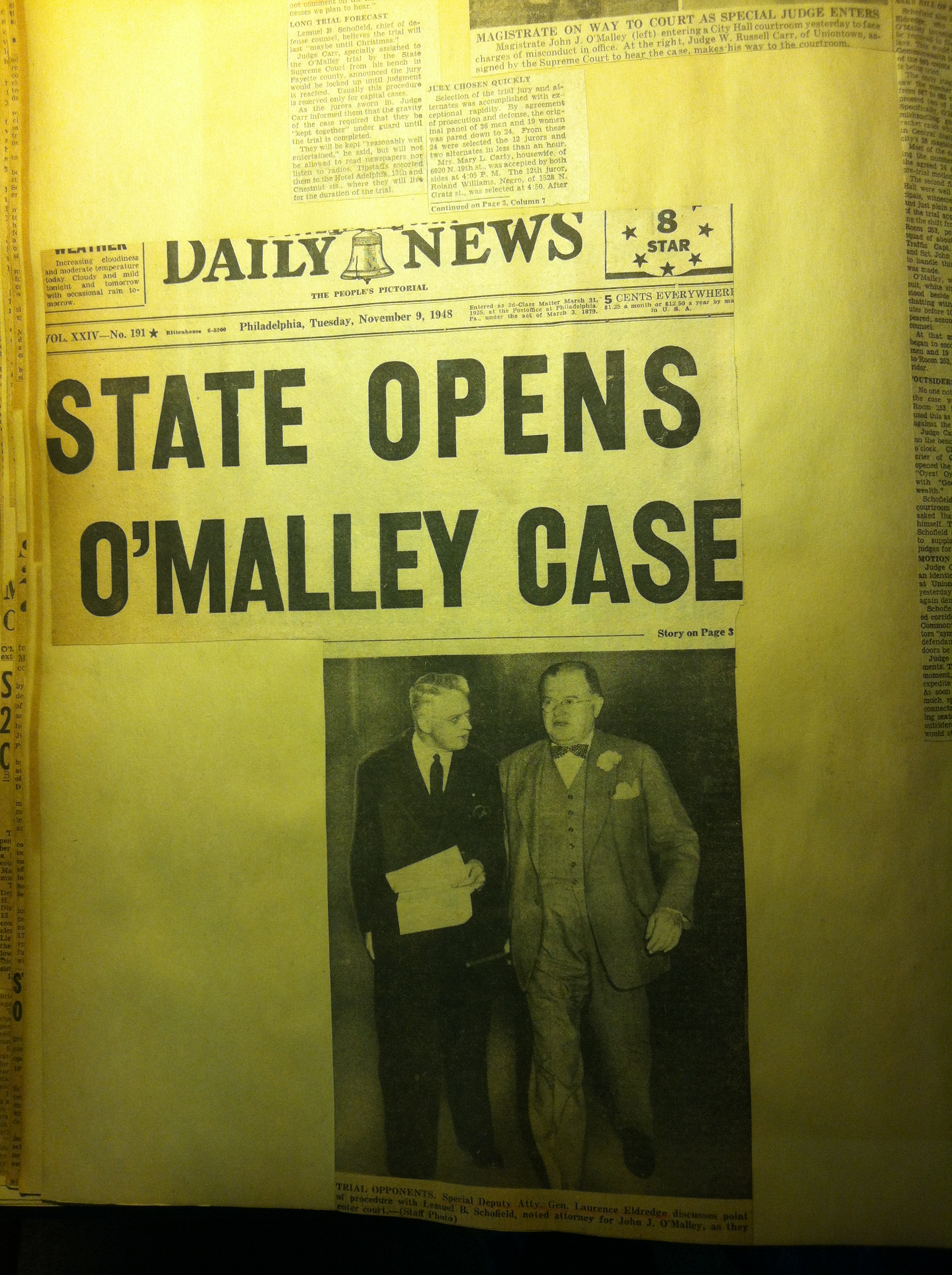 Image from my grandfathers' (Laurence H Eldredge) portfolio of news articles of The O'Malley Case